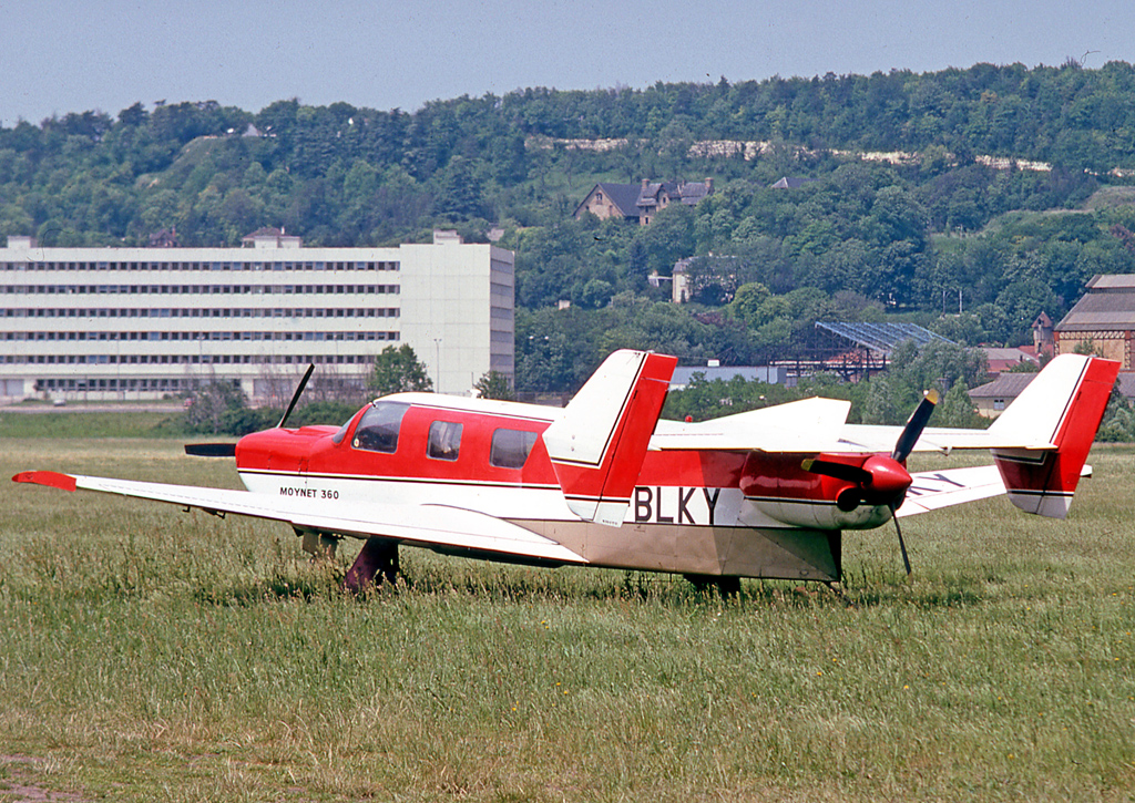 Moynet 360-6 Jupiter F-BLKY showing the fore and aft layout of the twin engines